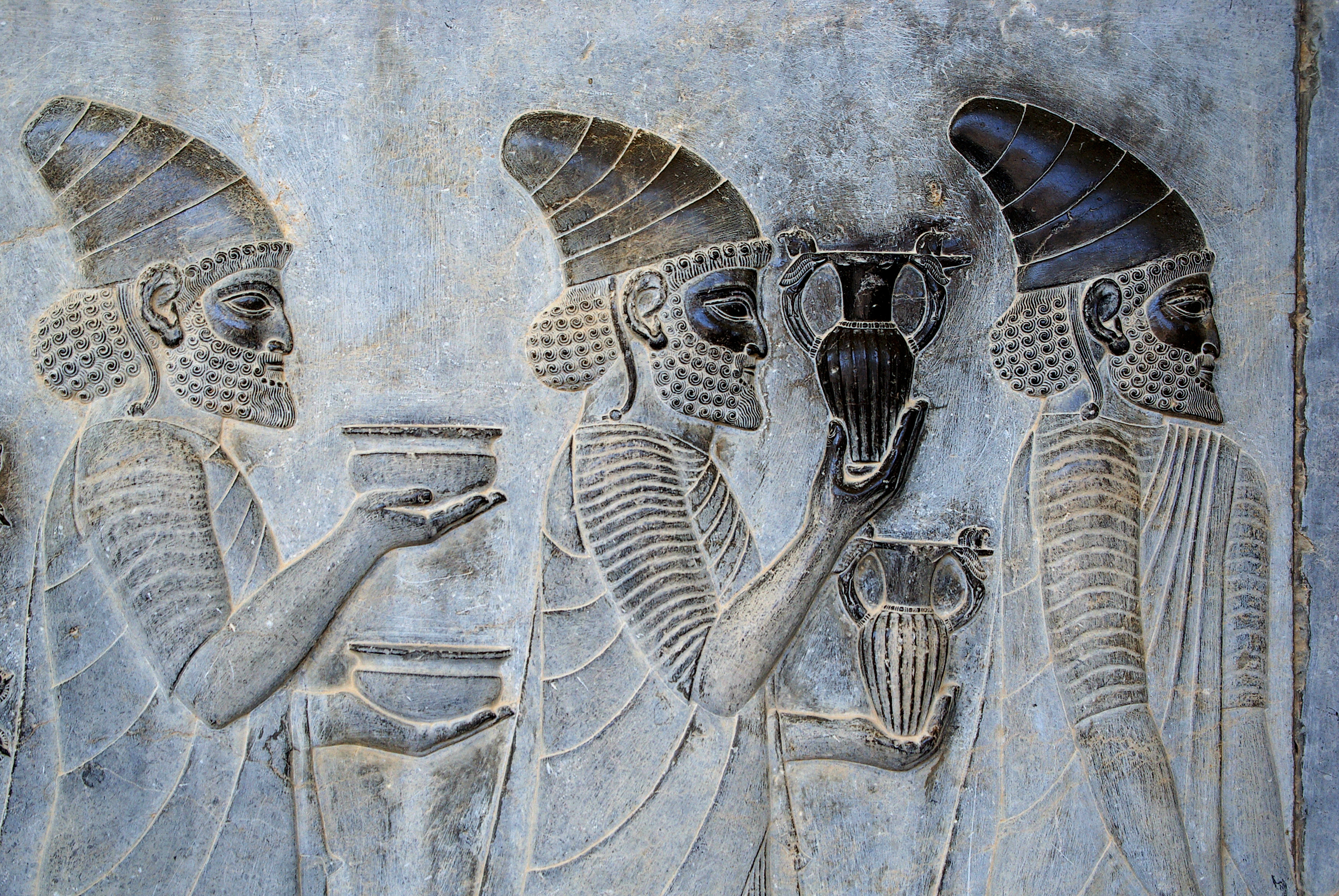 Detail of a relief of the eastern stairs of the Apadana at Persepolis (Takht-e Jamshid), Iran